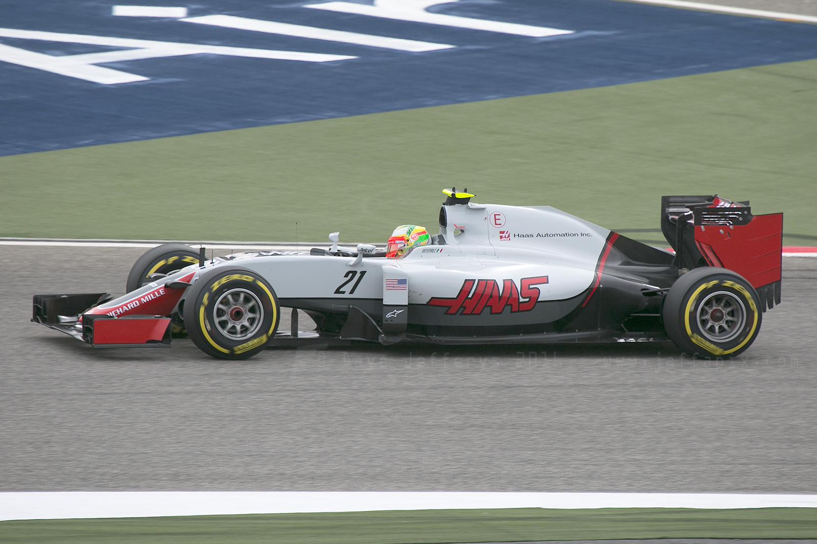 Esteban Gutierrez at the 2016 Bahrain Grand Prix